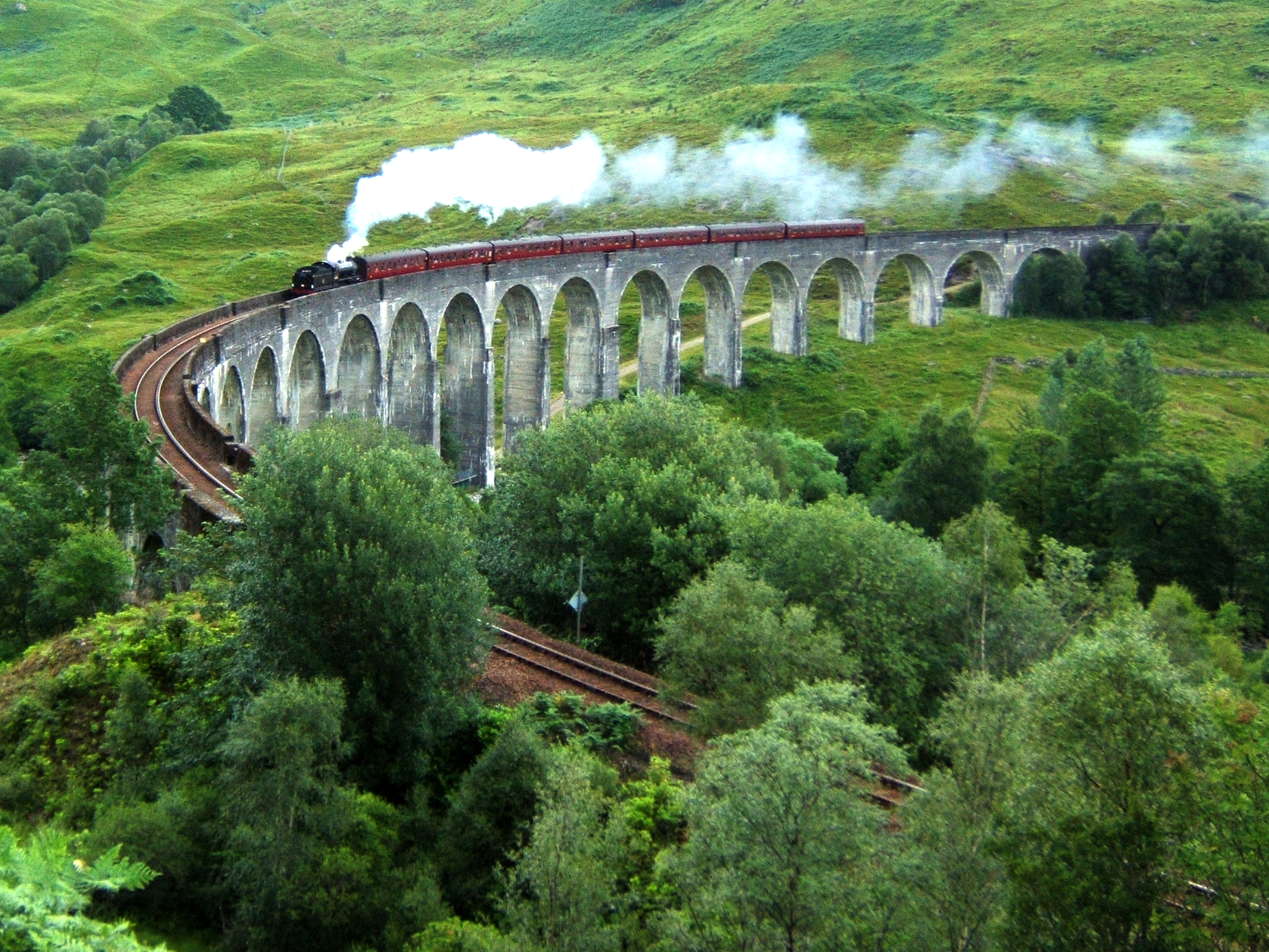 Steam Train on the Glenfinnan Viaduct.